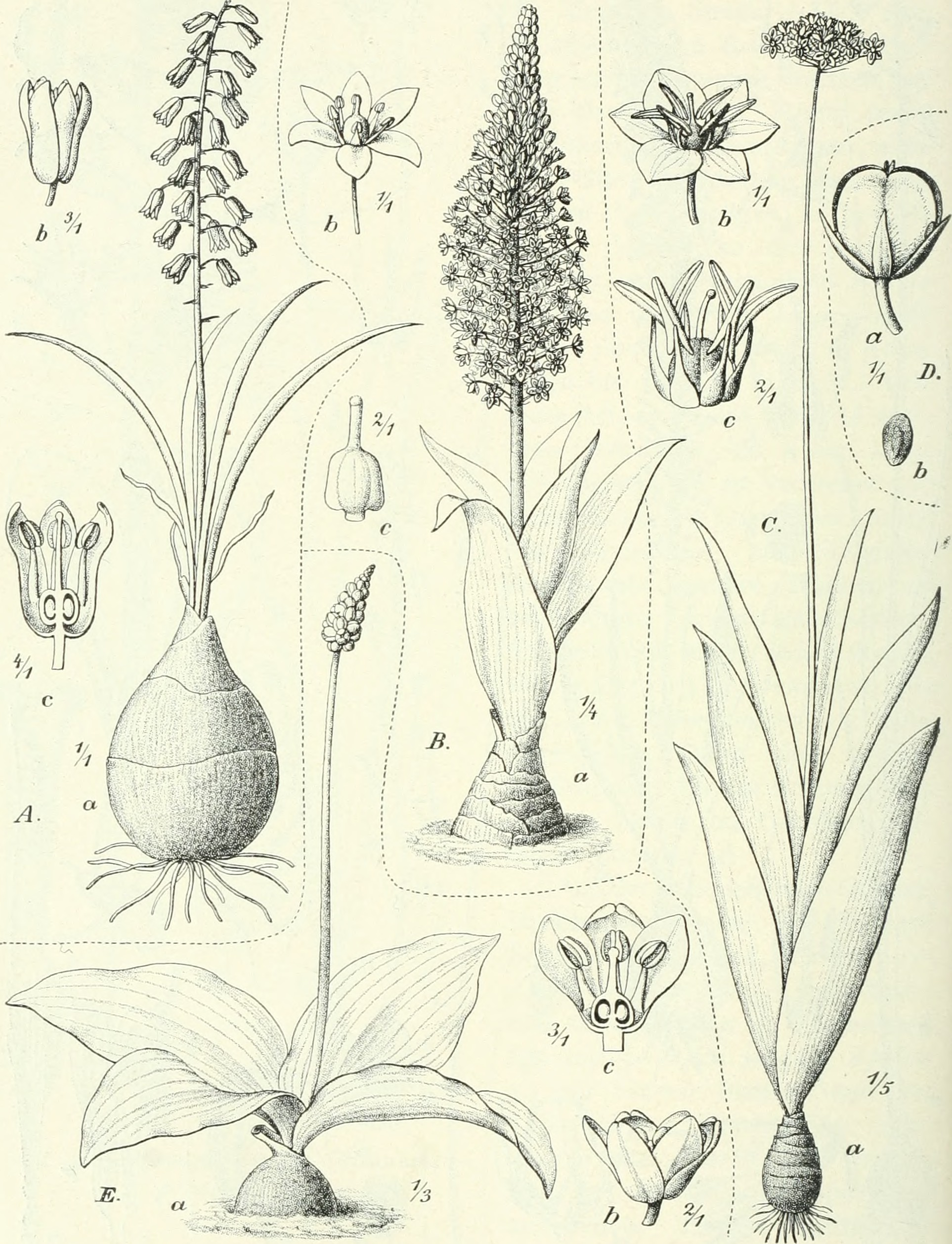 Title: Die Pflanzenwelt Afrikas, insbesondere seiner tropischen Gebiete : Grundzge der Pflanzenverbreitung im Afrika und die Charakterpflanzen Afrikas Year: 1910 (1910s) Authors: Engler, Adolf, 1844-1930 Subjects: Botany Publisher: Leipzig : W. Engelman Text Appearing Before Image: 304 Liliiflorae. — Liliaceae. Scilla L. ist durch Trauben mit blauen oder lilafarbenen, getrenntblättrigen Blüten und durch schwach gelappte Fruchtknoten ausg'ezeichnet. Man unter- scheidet über 90 Arten im tropischen und südlichen Afrika; aber für deren Text Appearing After Image: Fig. 206. A Scilla edulis Engl. (Djur, Zentralafrika). B Sc. natalensis Planch. (Natal, Transvaal). C Ornithogalum excelsum Diels (Lydenbnrg in Transvaal). D O. longibracteatum Jacq. (Ukamba, Ostafrika). E Drimiopsis Holstii Engl. (Usambara, Gebirgsland). — Original.